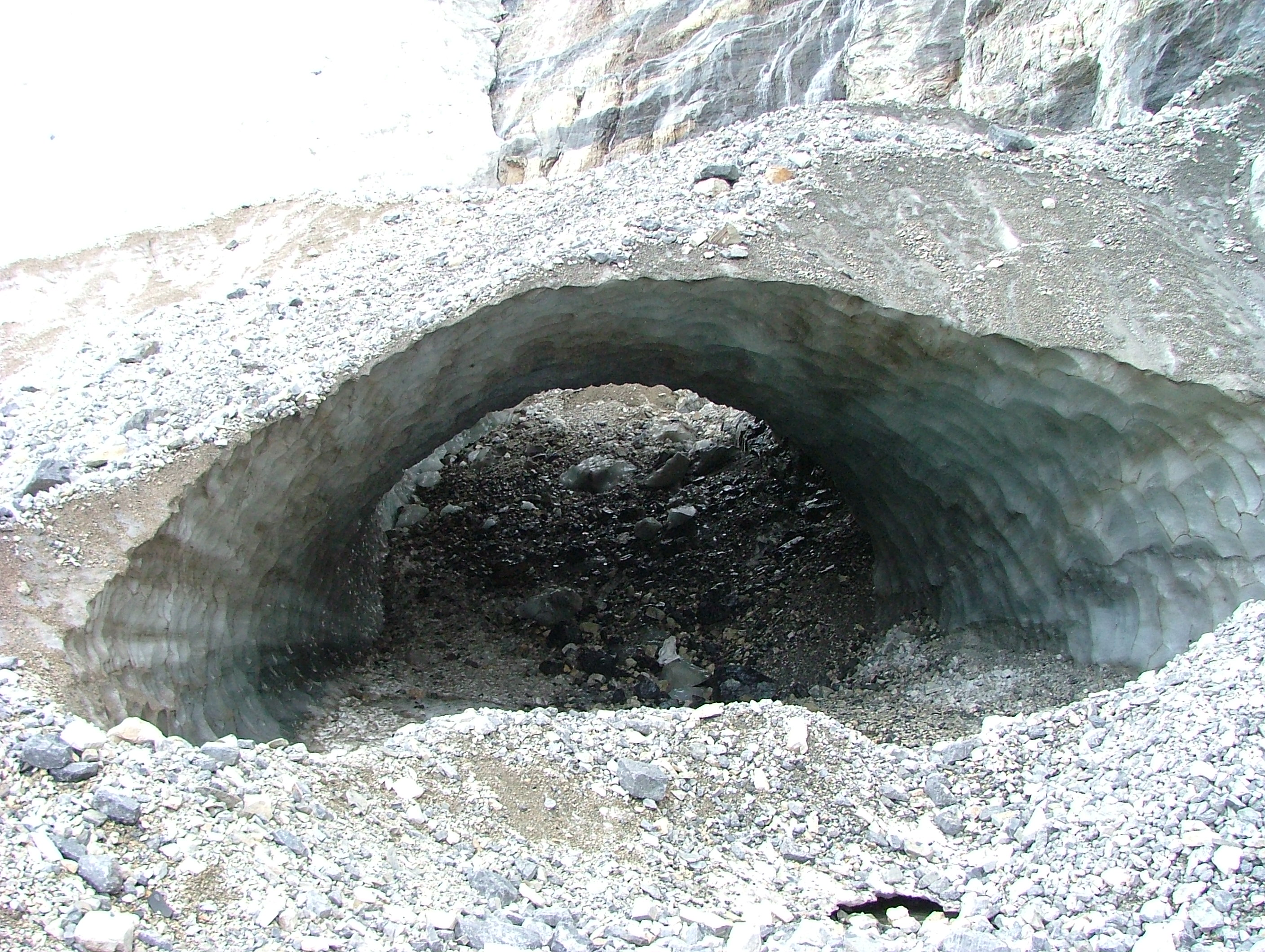 Cave in clacial ice at foot of Stanley Glacier